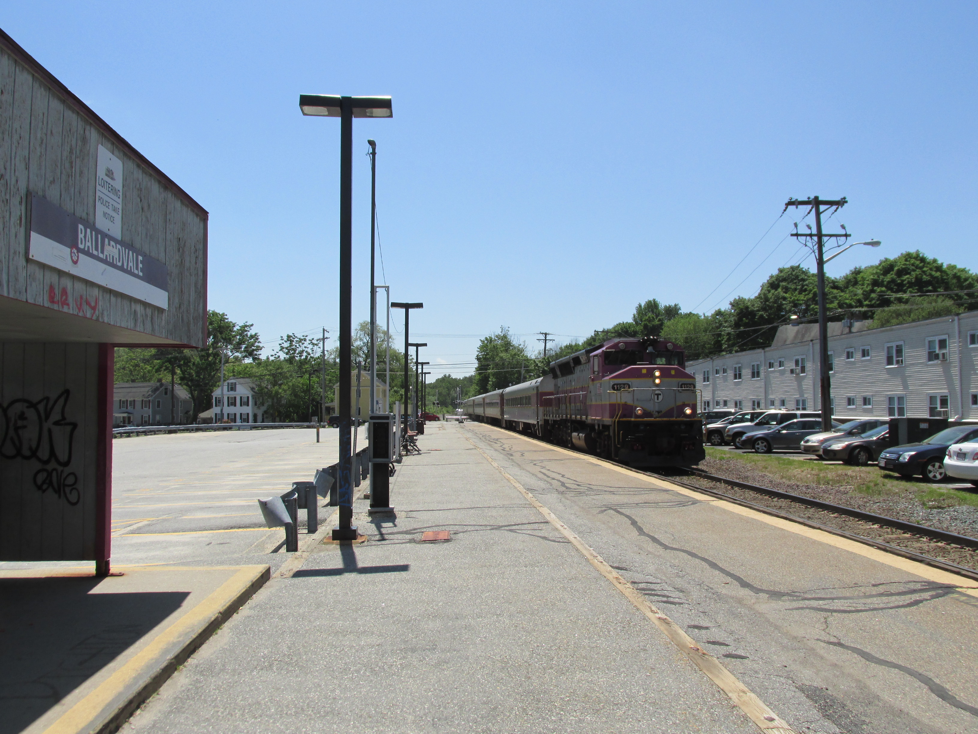 Ballardvale MBTA Station, Ballardvale Massachusetts - 2013